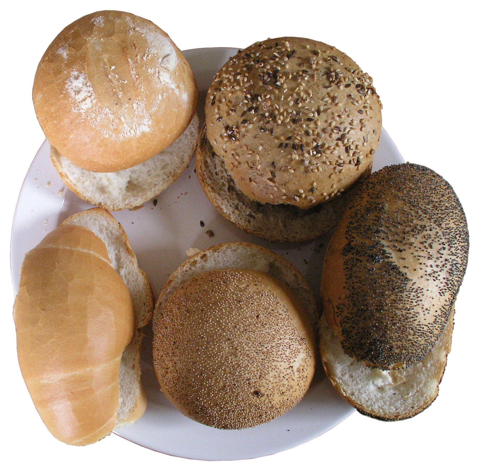 Danish rolls from a bakery near Copenhagen.